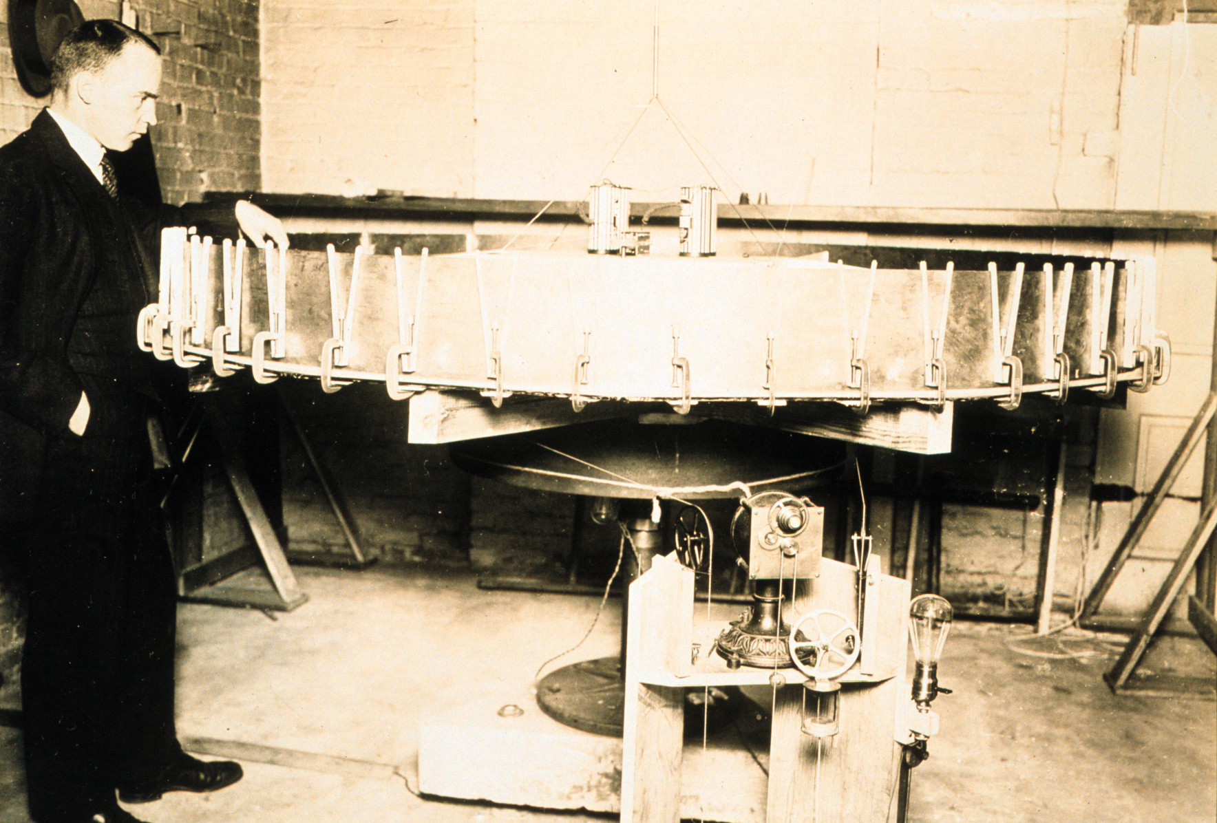 Meteorologist Carl-Gustaf Rossby standing beside his rotating tank experiment used to study atmospheric motion in the basement of the U.S. Weather Bureau, 1926.